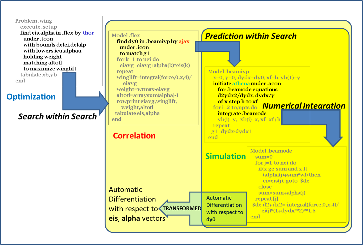 Another PROSE application having the same holarchy model pattern as the optimal design & control problem, but with multidimensional constrained optimization in the outermost holon.